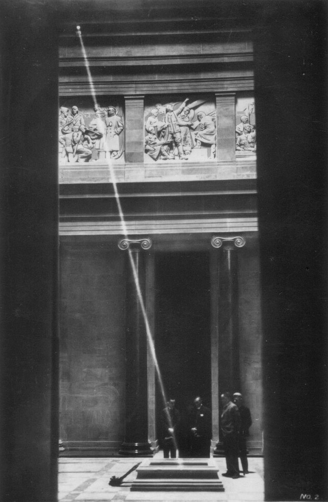 A ray of light falls upon the word "love", carved into the Stone of Remembrance in the Sanctuary, part of Melbourne's Shrine of Remembrance — a memorial dedicated to those who fell during the Great War. The light hits that exact spot on Remembrance Day, November 11, at 11 am each year.